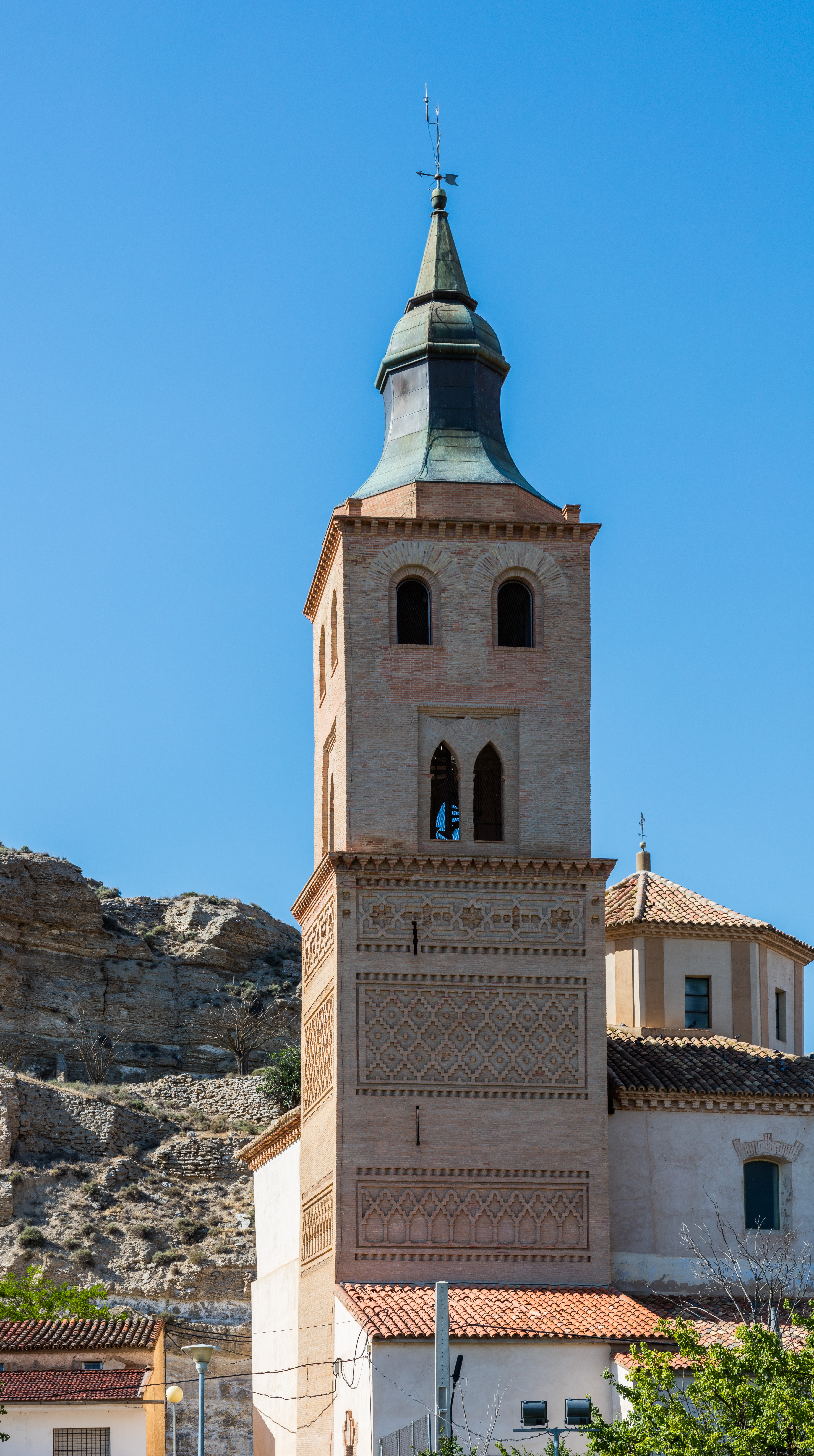 Tower of the church of the Assumption, Terrer, Saragossa, Spain